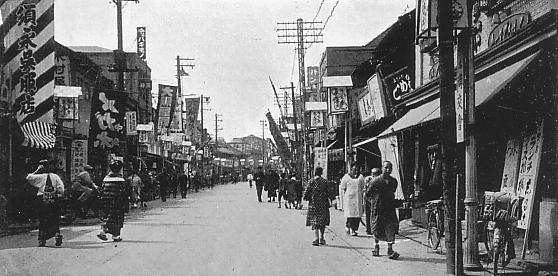 Azabu-Juban in 1933